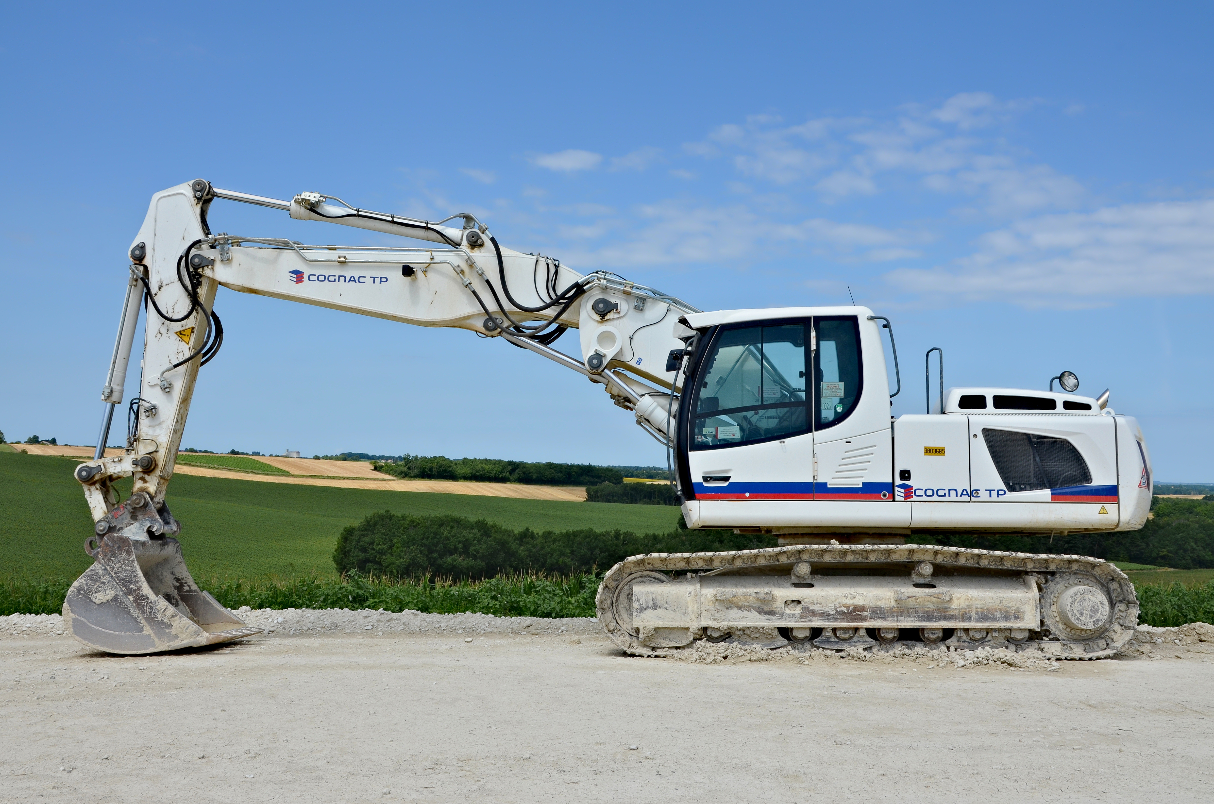 Excavator Liebherr R926, Sainte-Souline, Charente France.